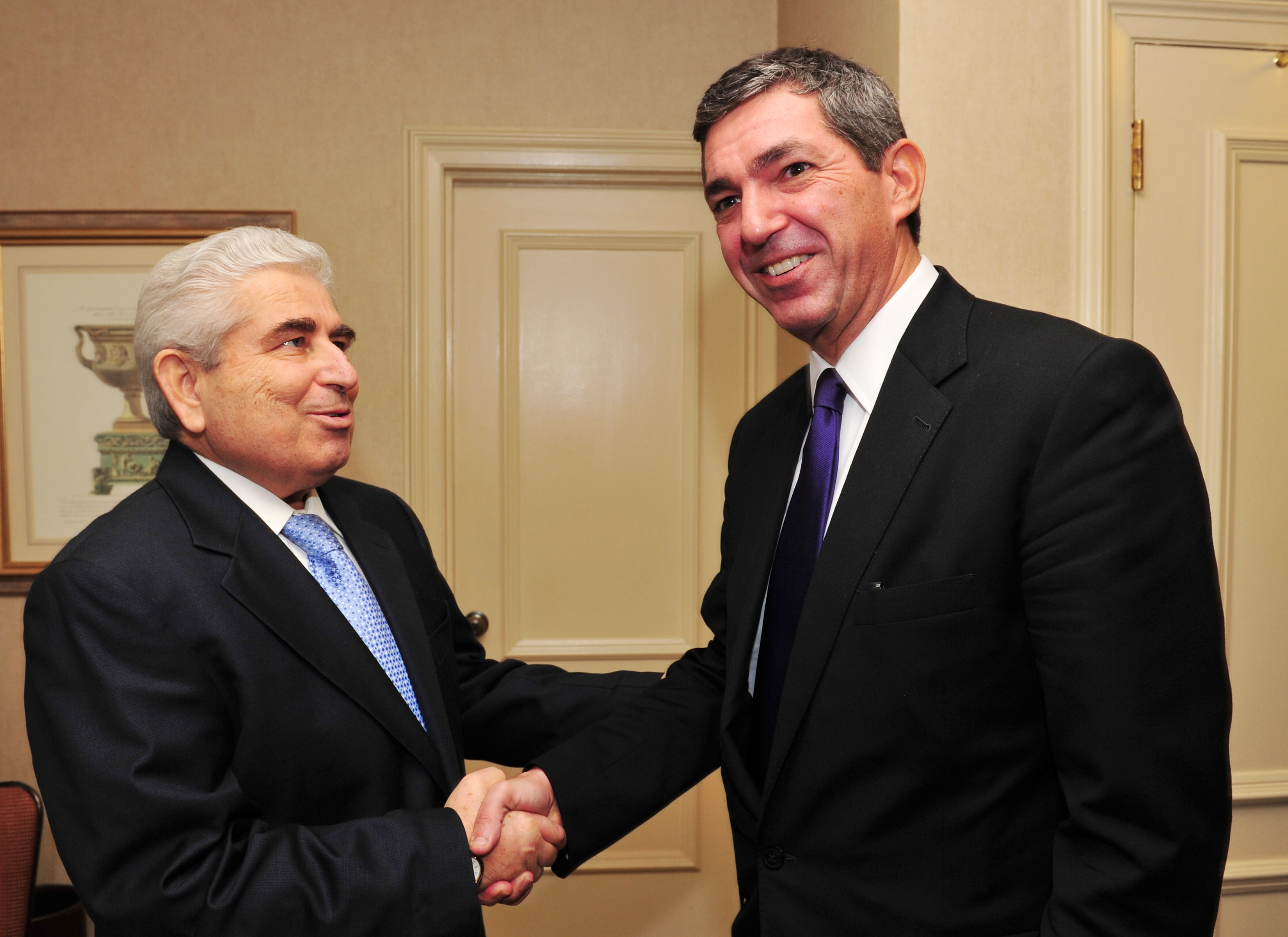 Foreign Minister of Greece Stavros Lambrinidis and President of Cyprus Demetris Christofias (New York, 21/09/11).